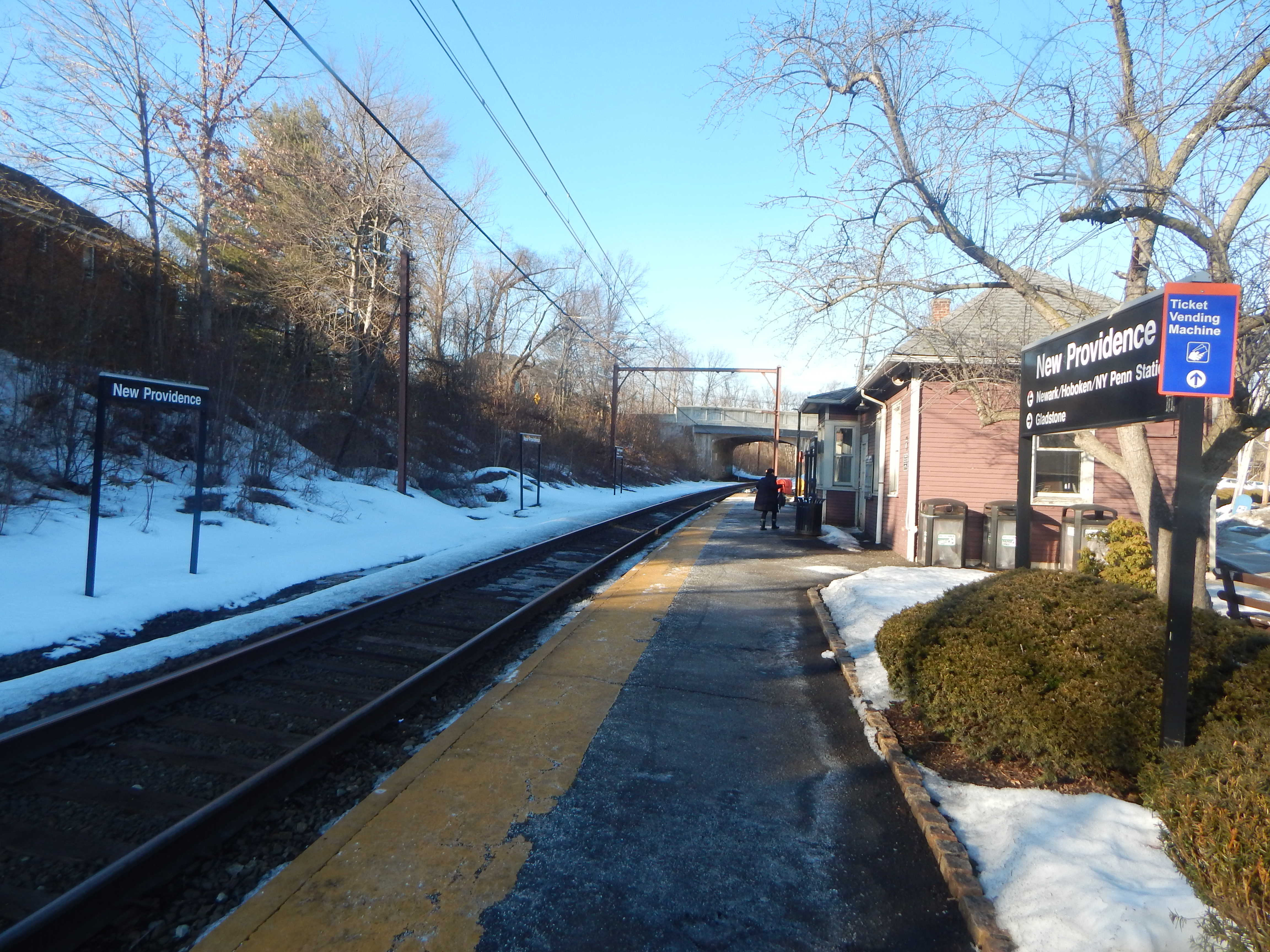 The New Providence station for New Jersey Transit in New Providence, New Jersey.